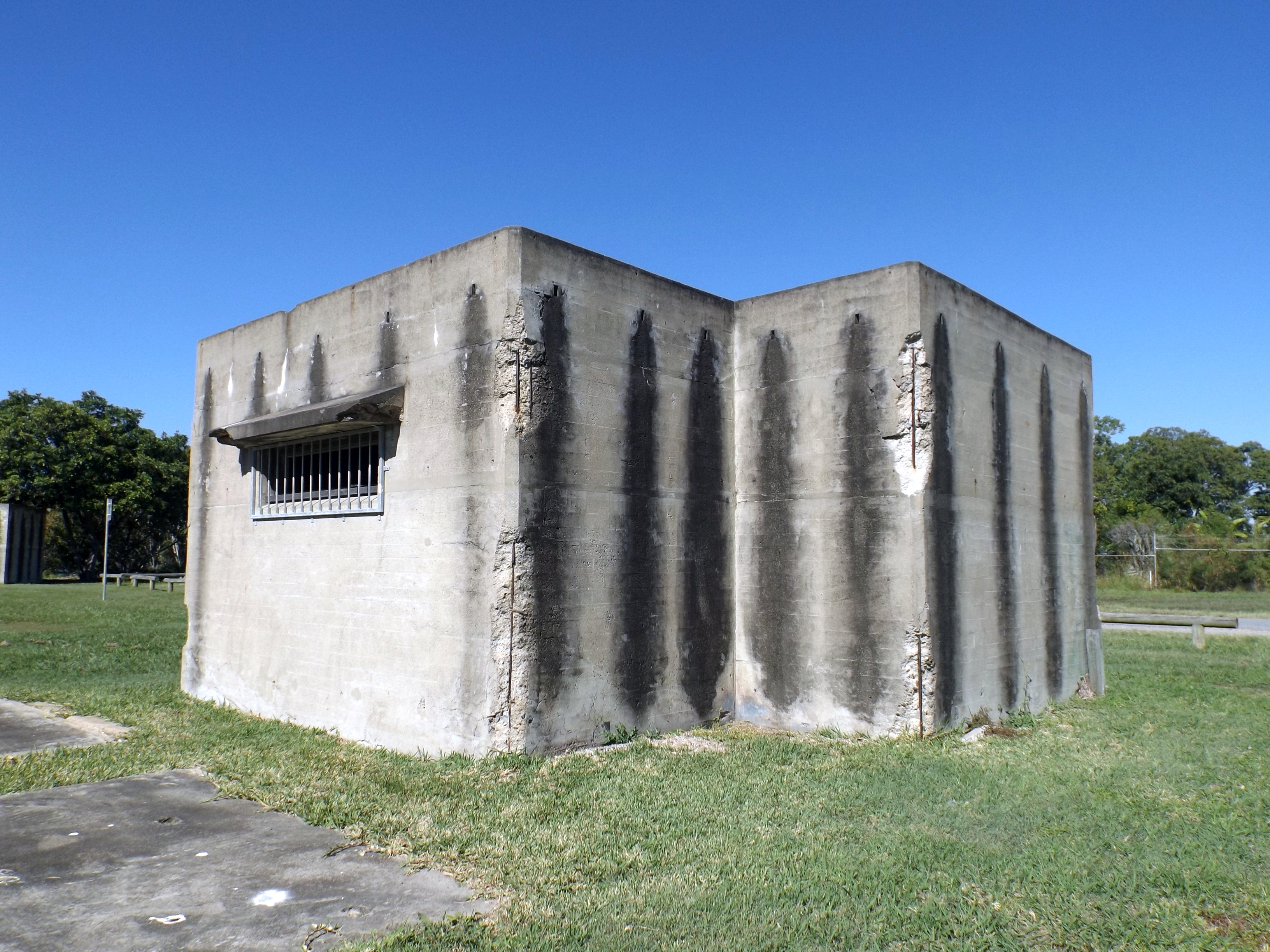 Photo of RAN Station 9 generator hut at Pinkenba, Brisbane, Queensland, Australia.